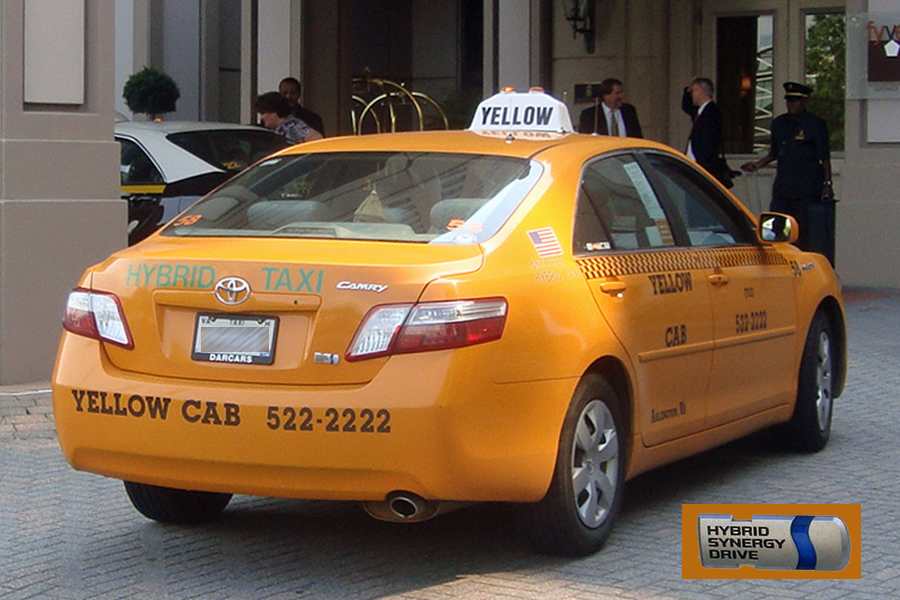 Rear view of a Yellow Cab Hybrid Taxi (Toyota Camry Hybrid) with Toyota HSD blue badging. Arlington, Virginia.